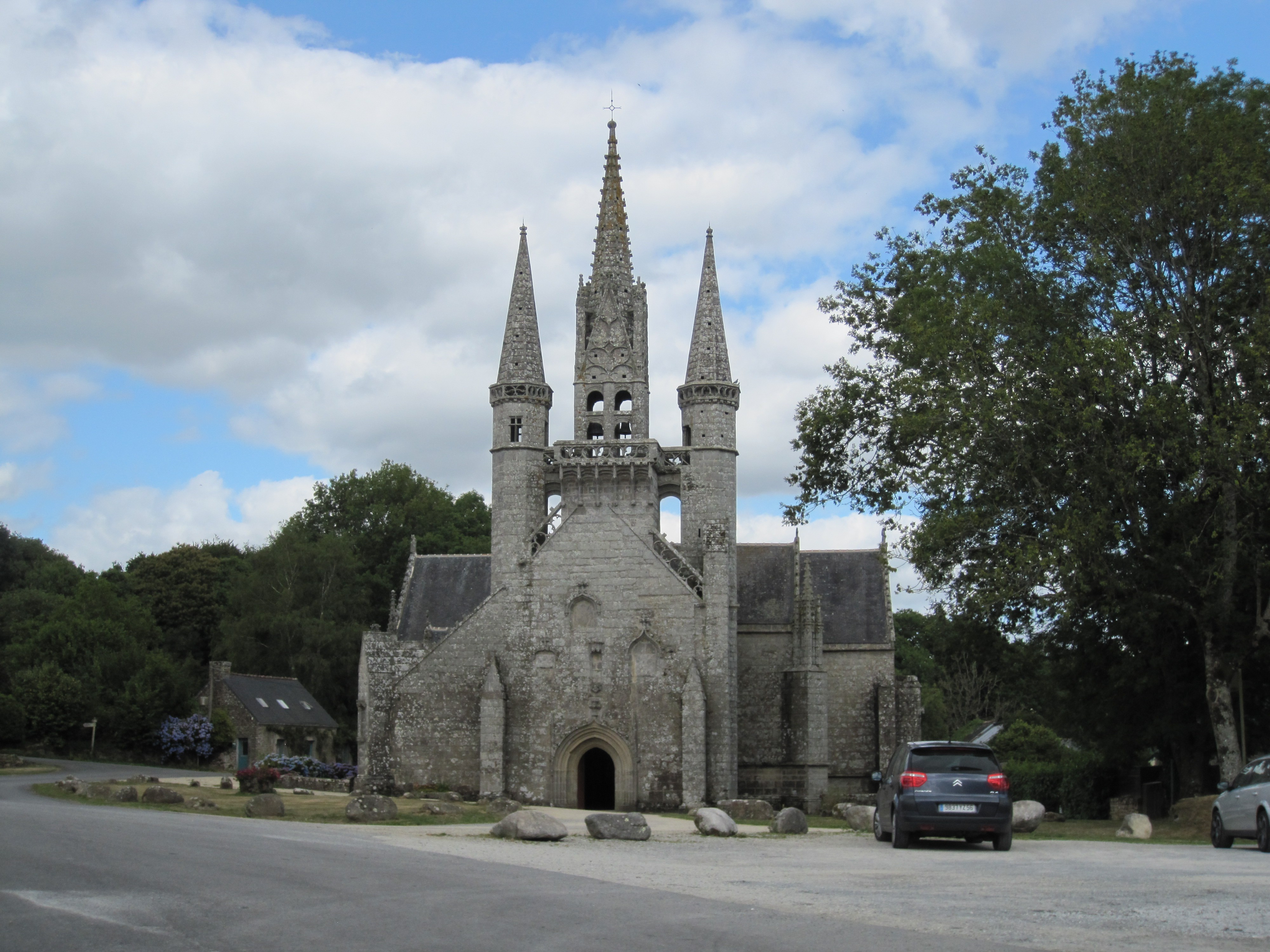 Exterior of the church St. Fiacre in Le Faouët, Morbihan